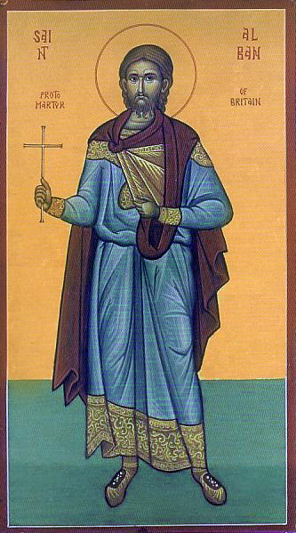 Icon of St. Alban